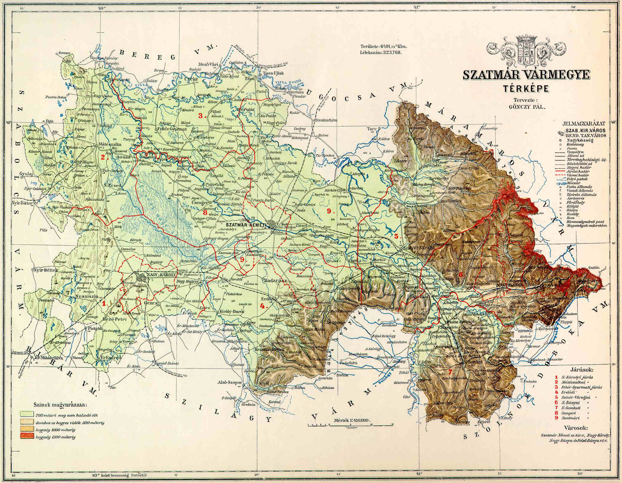 County of Szatmár in the pre-Trianon Kingdom of Hungary. Komitat Szatmár w Królestwie Węgier przed traktatem w Trianon.